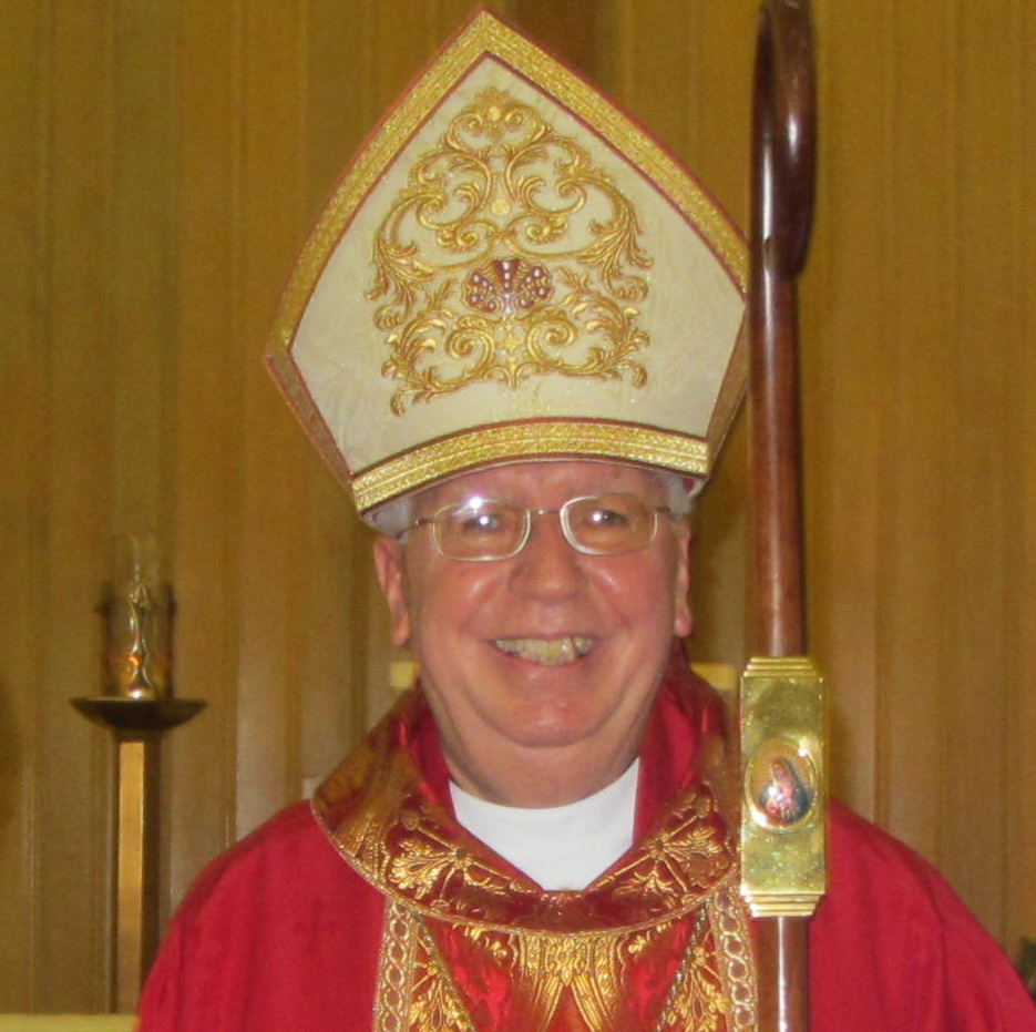 Crop of Bishop Cirilo Flores from a confirmation in 2013